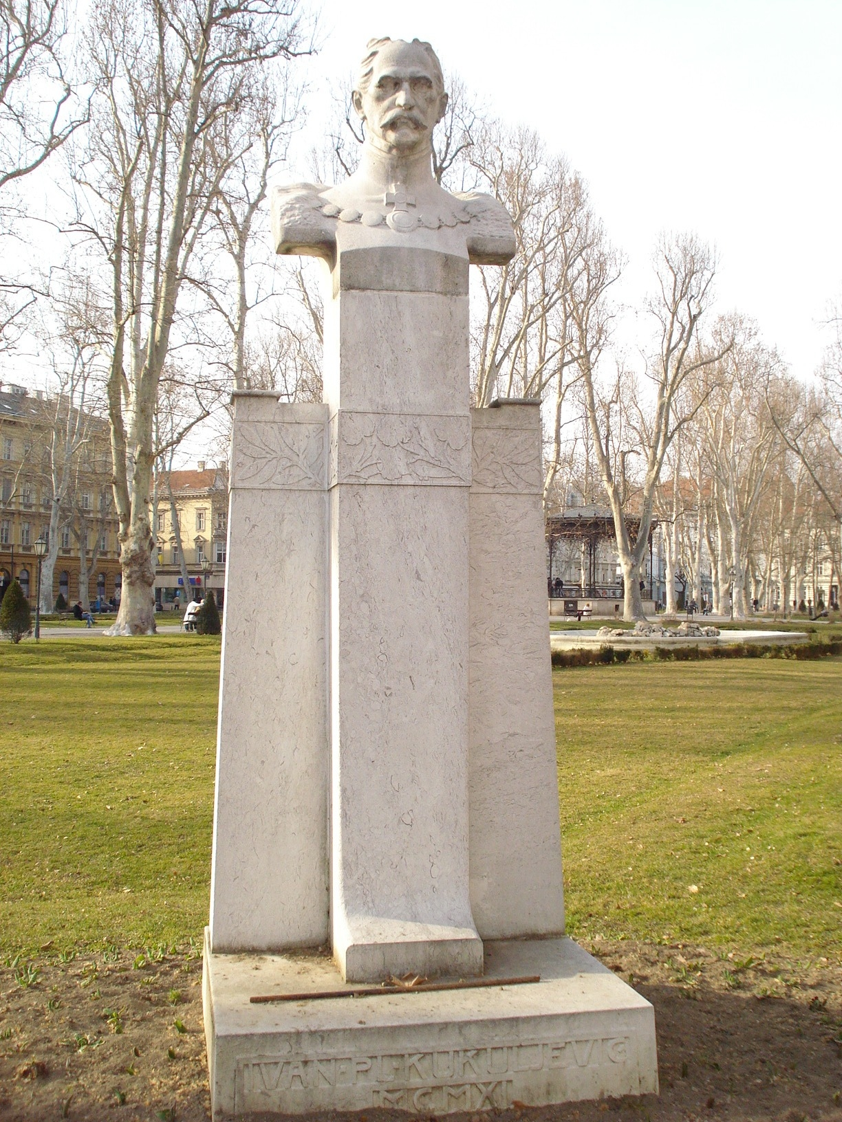 Ivan Kukuljević Sakcinski, Croatian historian and politician - bust at Nikola Šubić Zrinski square in Zagreb, Croatia